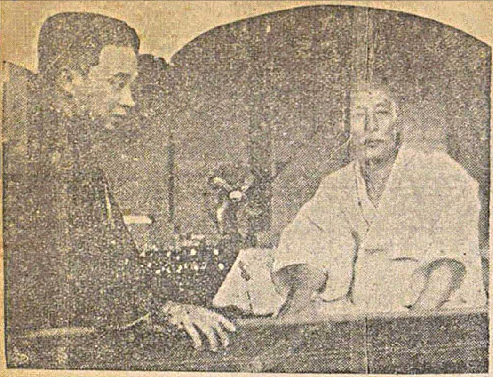 Park Jung-yang and reporter of Joseonminbo